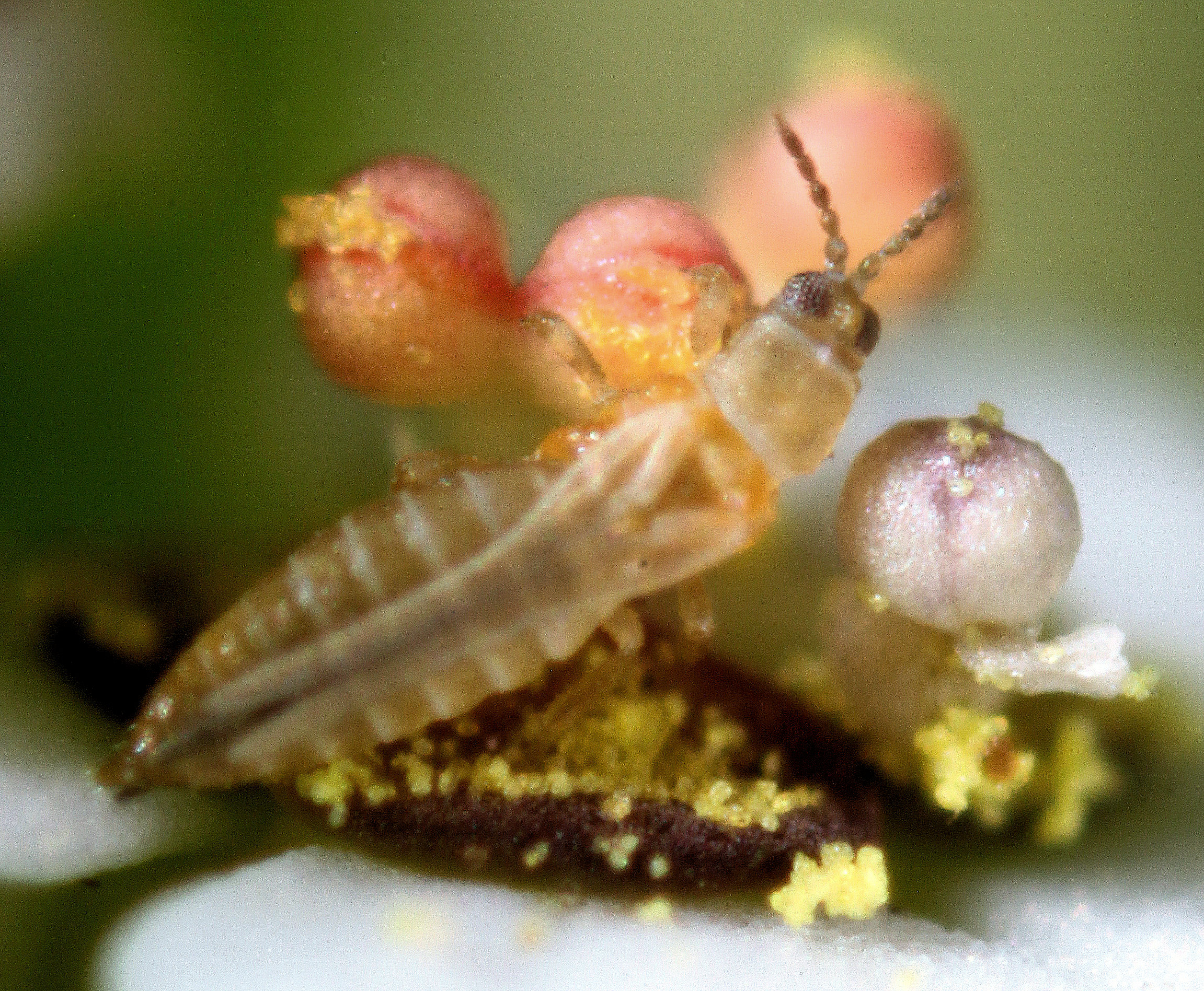 Thrips (probably Frankliniella occidentalis) on a rattlesnake sandmat (Euphorbia albomarginata) flower stamen. Identification: It was identified to the Thripinae subfamily by the experts. The species level ID is probable based on a comparison with other Frankliniella occidentalis on the internet Location: Fullerton, CA, USA